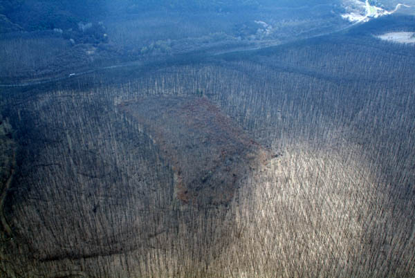 Alsópetény, Hungary, aerial photography, castle